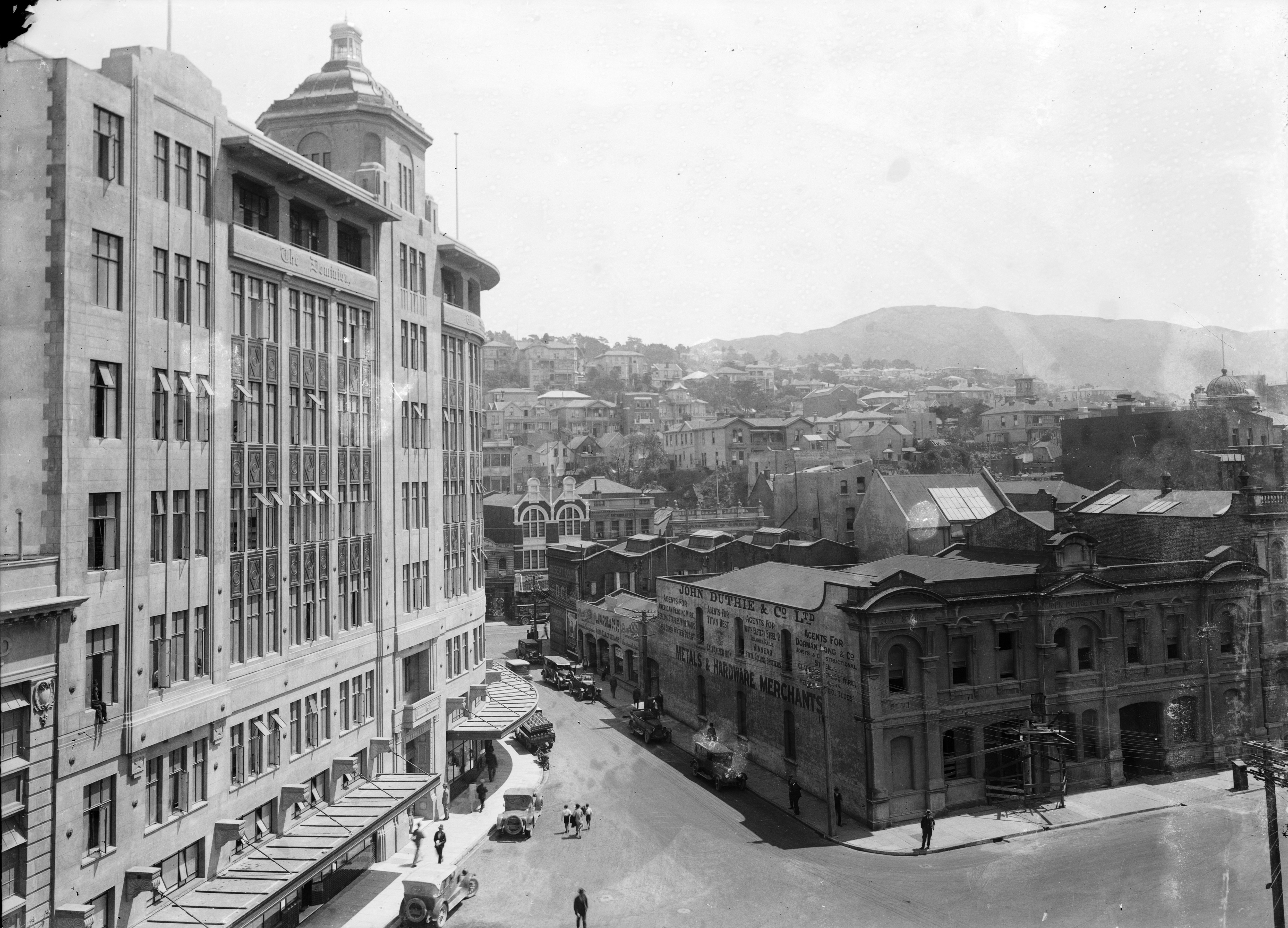 Mercer Street and The Dominion Building, Wellington, photographed circa 1930 for the Evening Post by an unidentified photographer. View includes the premises of John Duthie and Co Ltd. The Dominion Building is registered with the NZHPT as Category II.